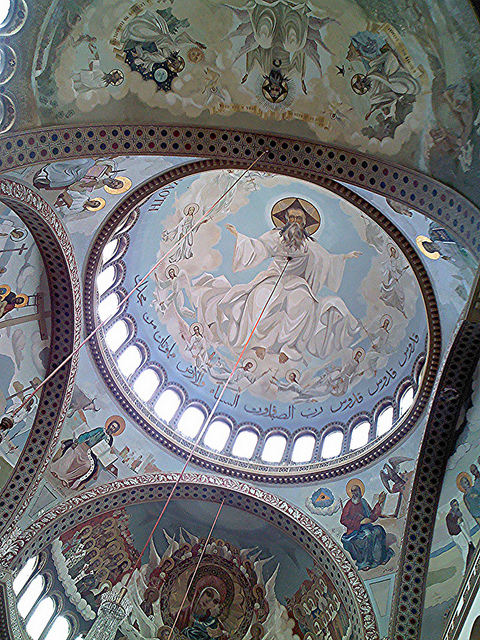 Main cupola: God, the Pantocrator with inscriptions in Arabic.